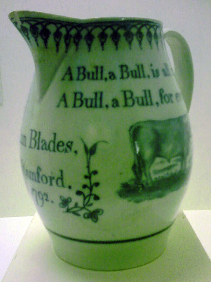 Stamford Museum had this jug which celebrates Ann Blades in 1792. She became famous for her role in Stamford Bull running. The Museum is probably closing in June 2011. Just months to go and I still couldn't get permission to show this picture to you. Despite the fact that its legal and moral to allow me to do it.